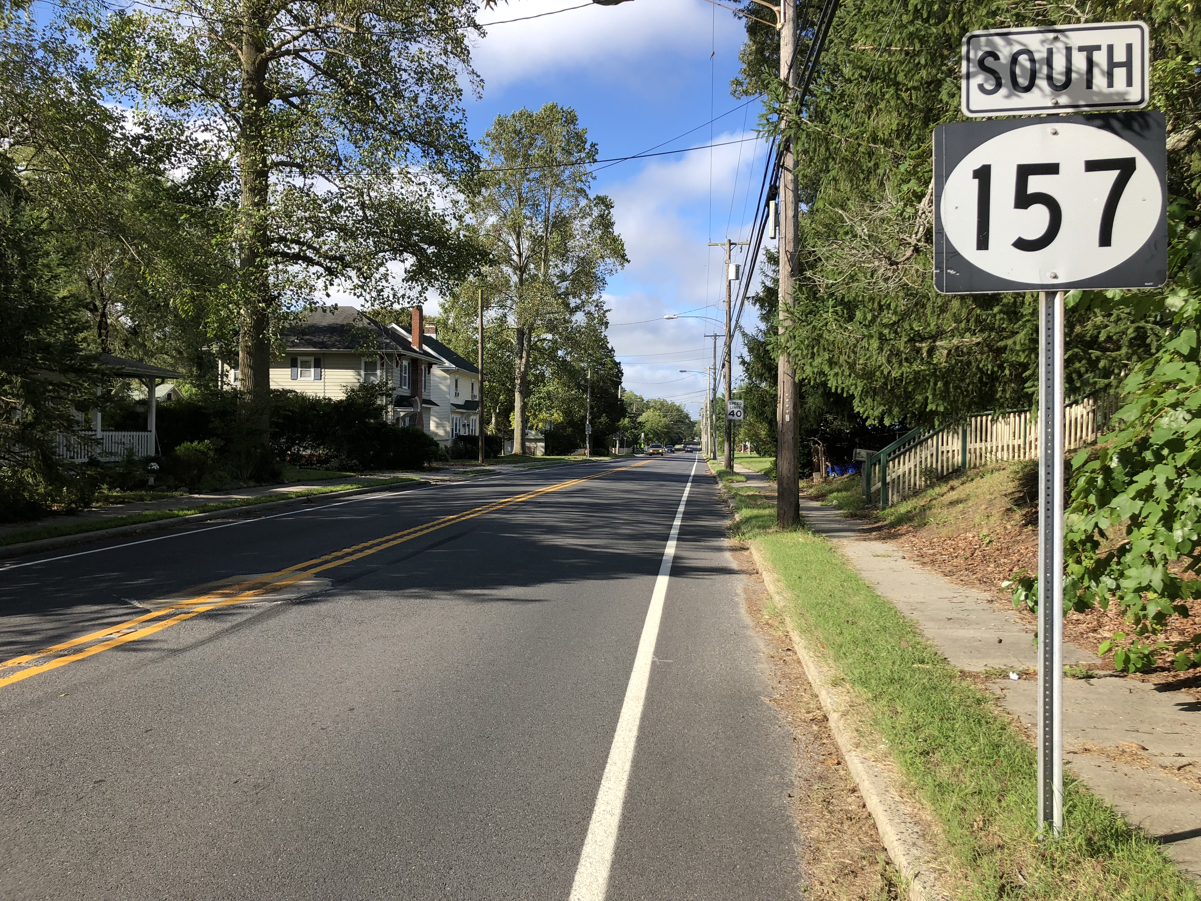 View south along New Jersey State Route 157 (Shore Road) at U.S. Route 9 (Wyoming Avenue) in Absecon, Atlantic County, New Jersey